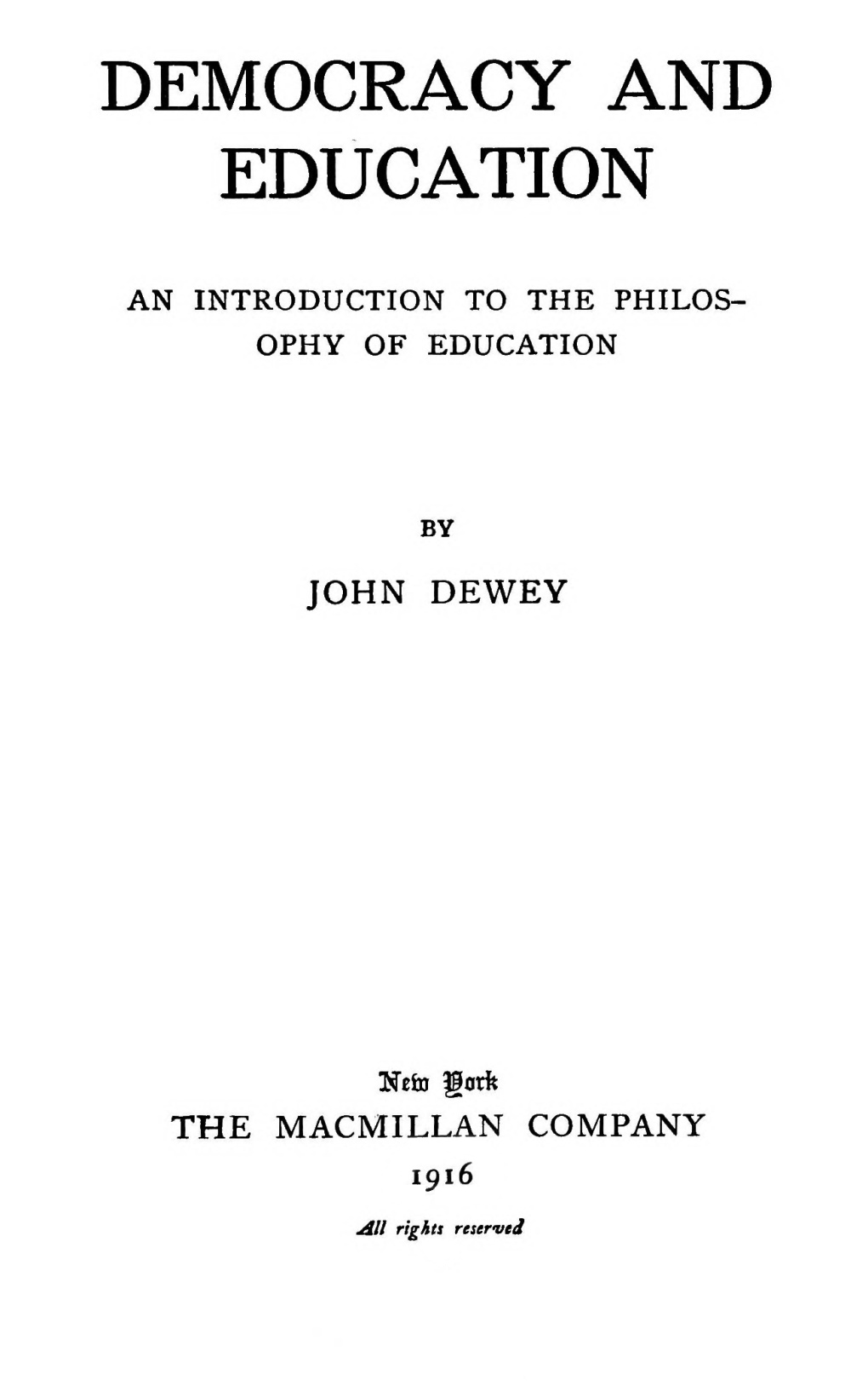 Title page of Democracy & Education